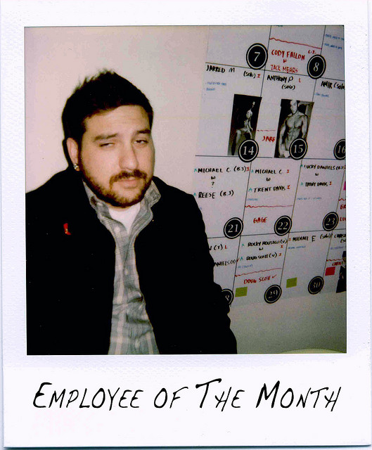 Jeremy Lucido working at the offices of Randy Blue